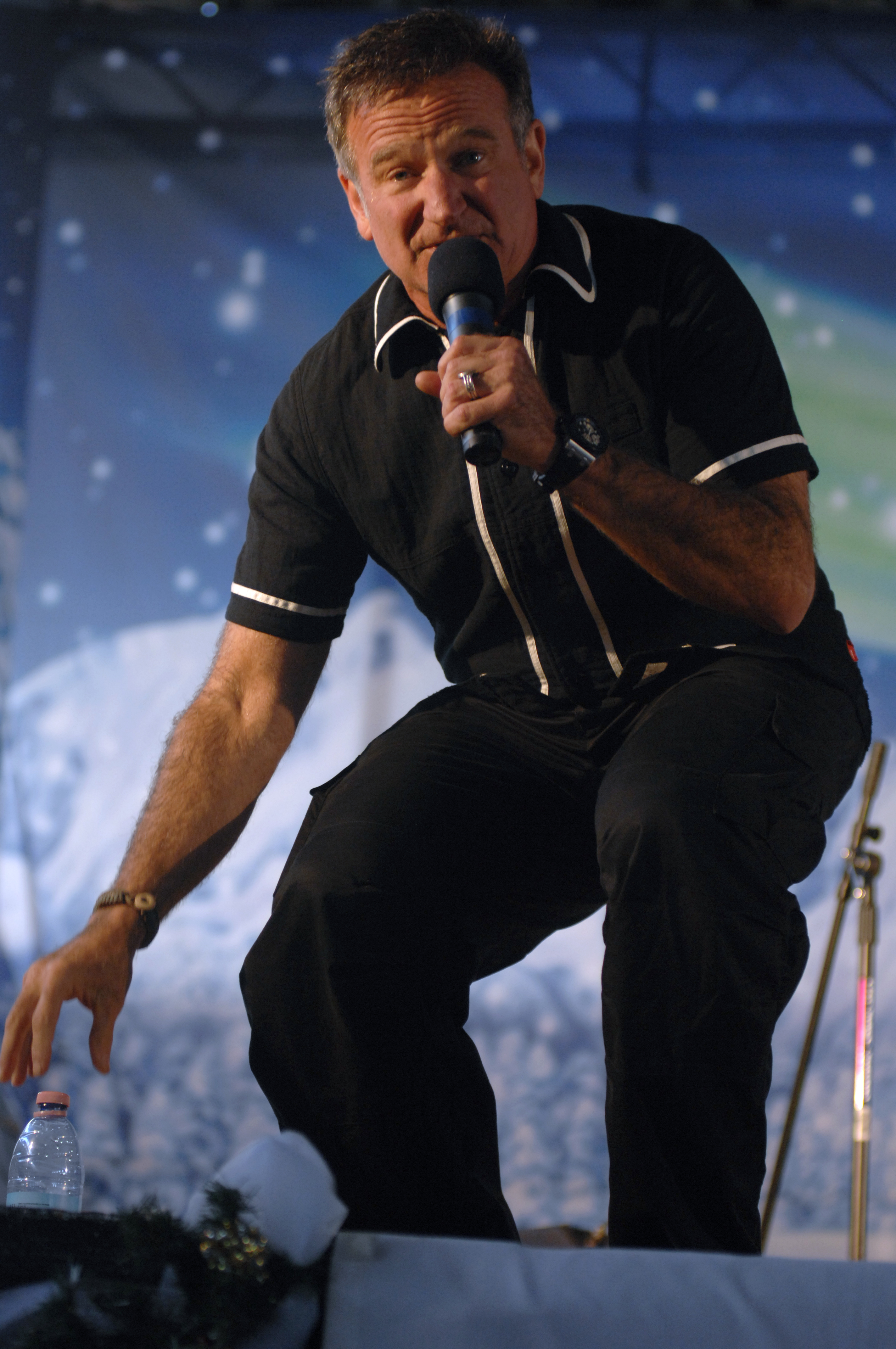 AVIANO AIR BASE, Italy -- Robin Williams performs as part of a USO holiday show held for the Aviano community, Dec. 22, 2007. Navy Adm. Michael G. Mullen, chairman of the Joint Chiefs of Staff, arrived in Aviano early Saturday afternoon from down range, bringing entertainers and celebrities Robin Williams, Lewis Black, Kid Rock, Lance Armstrong, Rachel Smith, the reigning Miss USA, and Ronan Tynan an Irish Tennor on the Chairman's United Service Organizations Holiday tour.